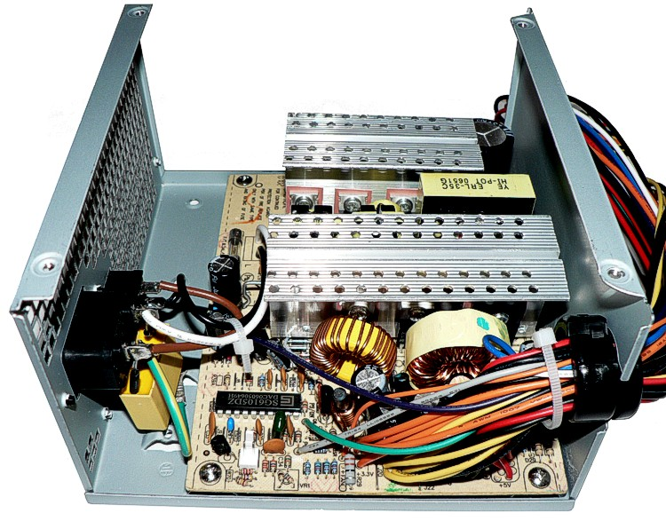 ATX power supply